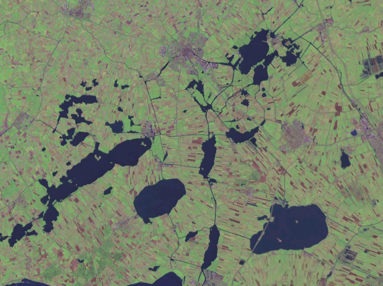 Friese meren. Satellite picture.